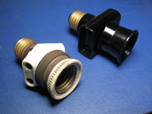 Bypass lampholder plugs with Edison screw mount.